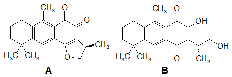 Aegyptinones A and B, natural compounds of rearranged abietanes present in Salvia aegyptiaca